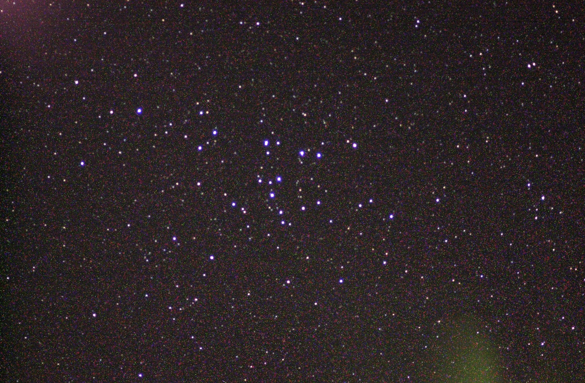 The Coma Star Cluster, a collection of stars which are visible to the naked eye in the constellation Coma Berenices, is visible in this view photographed by astronaut Donald R. Pettit, Expedition Six NASA ISS science officer, on board the International Space Station (ISS). The Coma Cluster is visible as a faint fuzzy patch between the constellations Leo and Virgo. The naked eye cannot resolve the individual stars, but collectively, they merge into a fuzzy flow in this part of the sky.